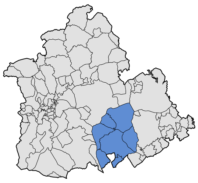 Map of Comarca de Morón y Marchena, region of province of Sevilla, Spain